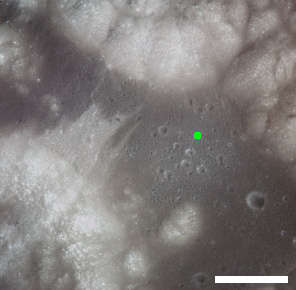 Green dot shows location of Sherlock, Taurus-Littrow Valley, on the moon. Scale bar at lower right is 5 km.